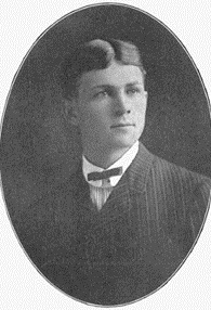 Photograph of Missouri football coach W. J. Monilaw